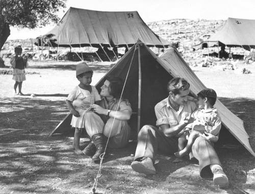 Immigration to Israel